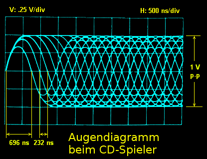 CD-player eye pattern, german